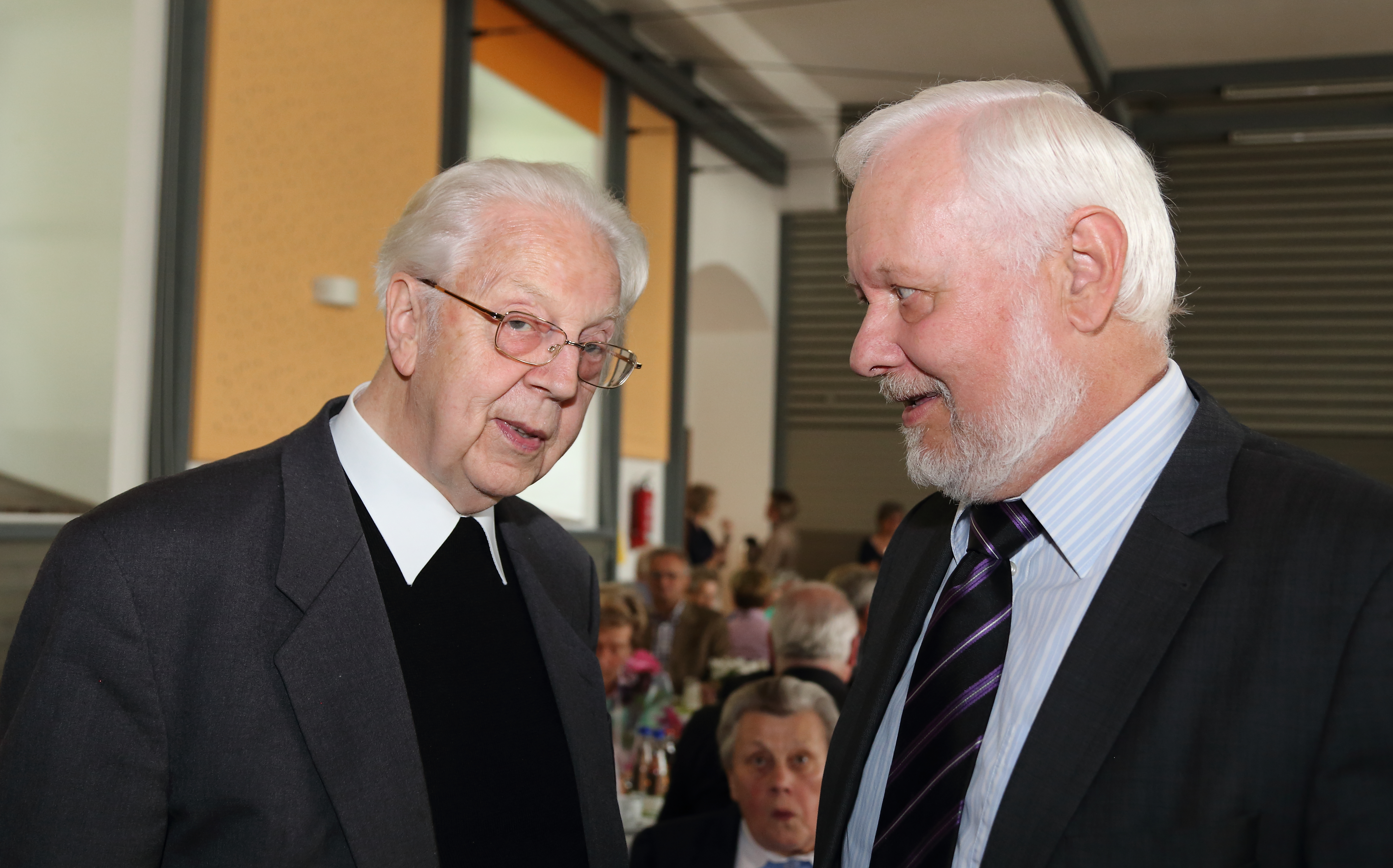 Reception hold on the occasion of the 85th birthday of Father Werner Heukamp and his 20 years of serving in Recke at the Dio-Jugendheim in Recke, Kreis Steinfurt, North Rhine-Westphalia, Germany. Here Johannes Konrad Rücker (right), member of the Kirchenvorstand of the St Dionysius Parish, congratulates Father Werner Heukamp.